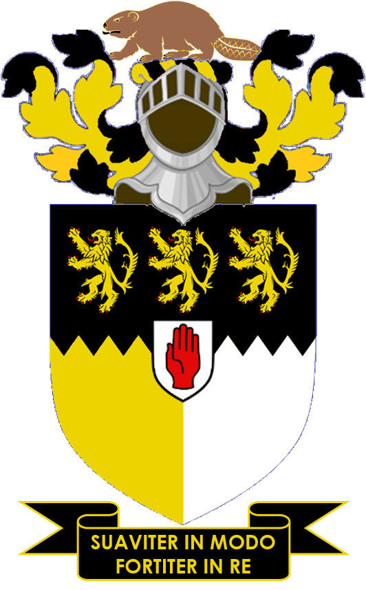 The armorial achievement of the Beevor baronets of Hethel